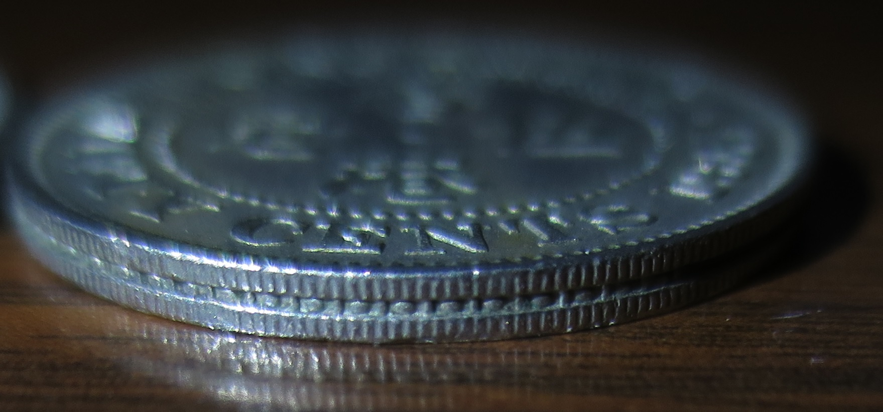 King George VI Hong Kong 50 Cents 1951 Security Edge